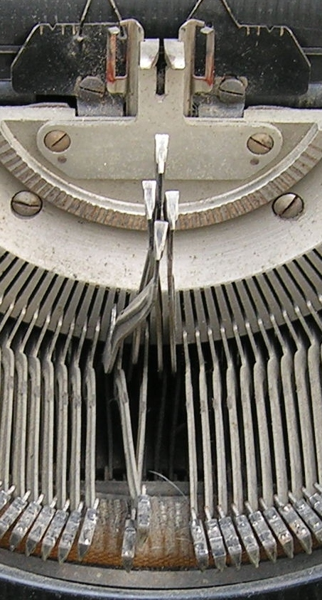 Typebars, showing the guiding mechanism till the paper.